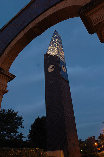 The Ostrander-Student Memorial Bell Tower stands in the campus arboretum. Its construction was made possible by a donation from Lloyd B. Ostrander, a 1927 MSU graduate, his wife, Mildred, and donations from the Student Association and other contributors. The Bell Tower was completed in 1989.